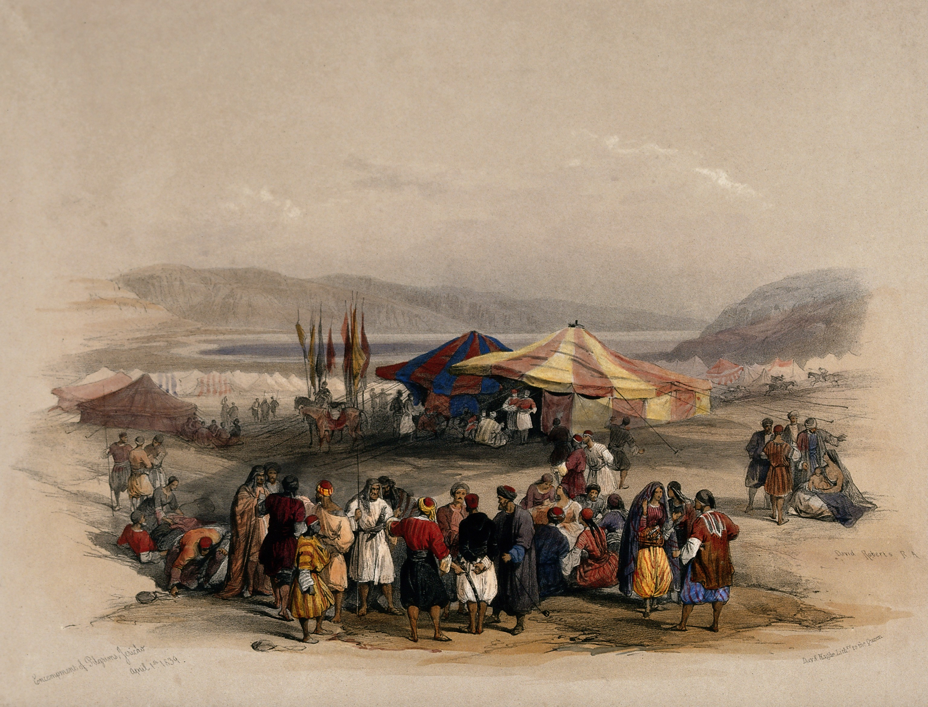 Tent of Achmet Aga, the governer of Jerusalem, with pilgrims at Jericho for Easter. Coloured lithograph by Louis Haghe after David Roberts, 1843. Iconographic Collections Keywords: David Roberts; Louis Haghe